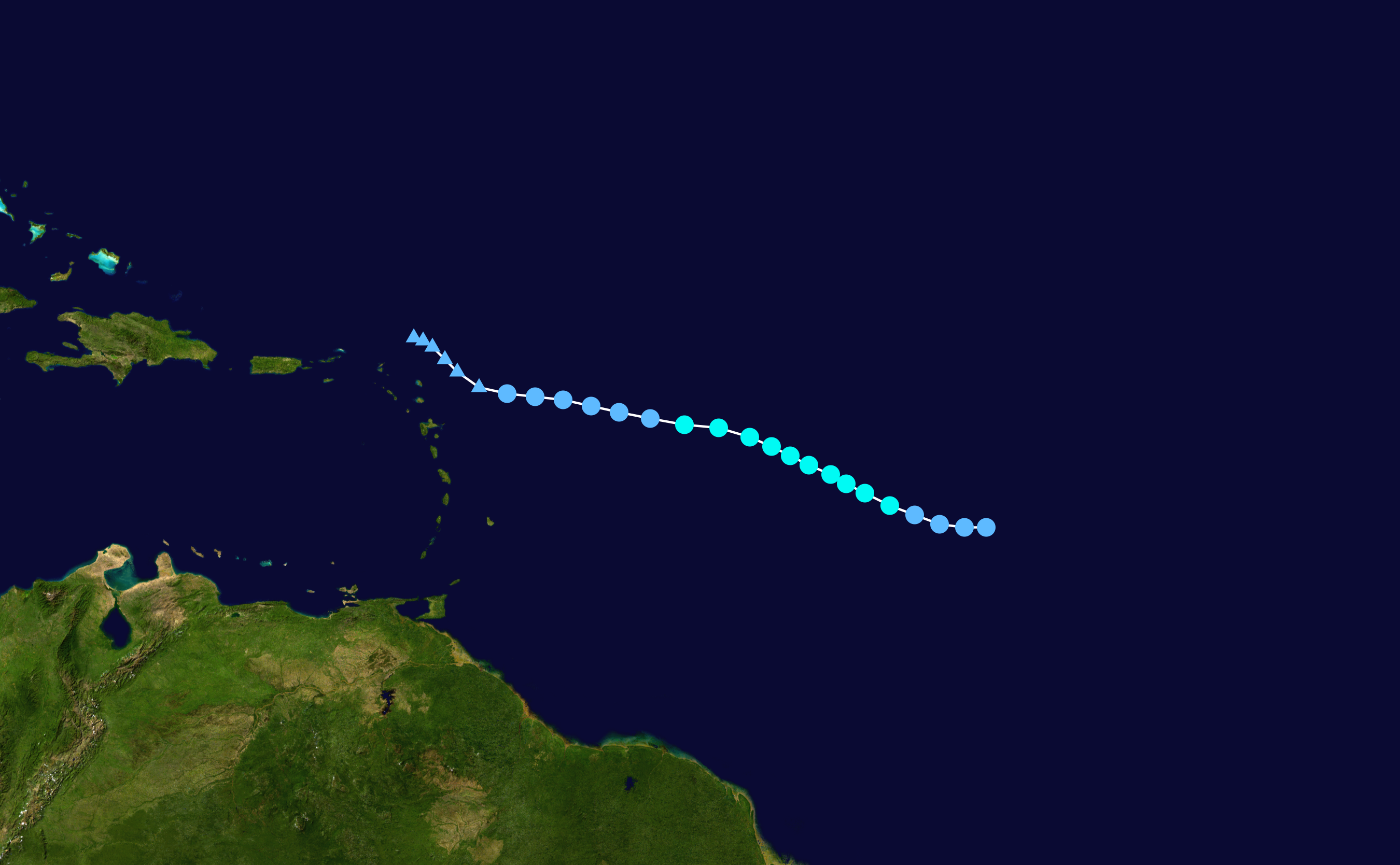 Track map of Tropical Storm Ingrid of the 2007 Atlantic hurricane season. The points show the location of the storm at 6-hour intervals. The colour represents the storm's maximum sustained wind speeds as classified in the Saffir–Simpson scale (see below), and the shape of the data points represent the nature of the storm, according to the legend below. Saffir–Simpson scale Tropical depression≤38 mph≤62 km/h Category 3111–129 mph178–208 km/h Tropical storm39–73 mph63–118 km/h Category 4130–156 mph209–251 km/h Category 174–95 mph119–153 km/h Category 5≥157 mph≥252 km/h Category 296–110 mph154–177 km/h Unknown Storm type Tropical cyclone Subtropical cyclone Extratropical cyclone / Remnant low / Tropical disturbance / Monsoon depression